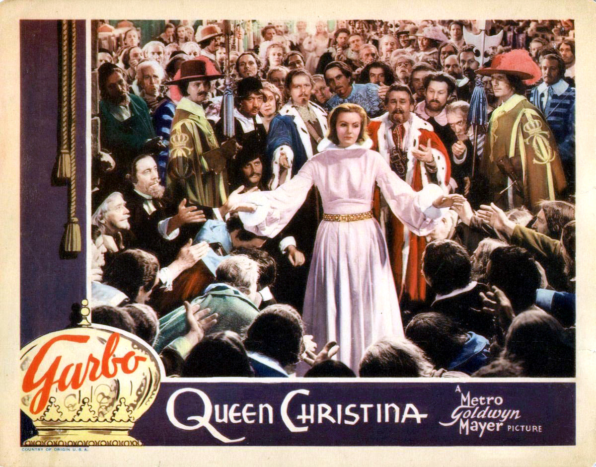 Lobby card from the 1933 film Queen Christina with Greta Garbo.